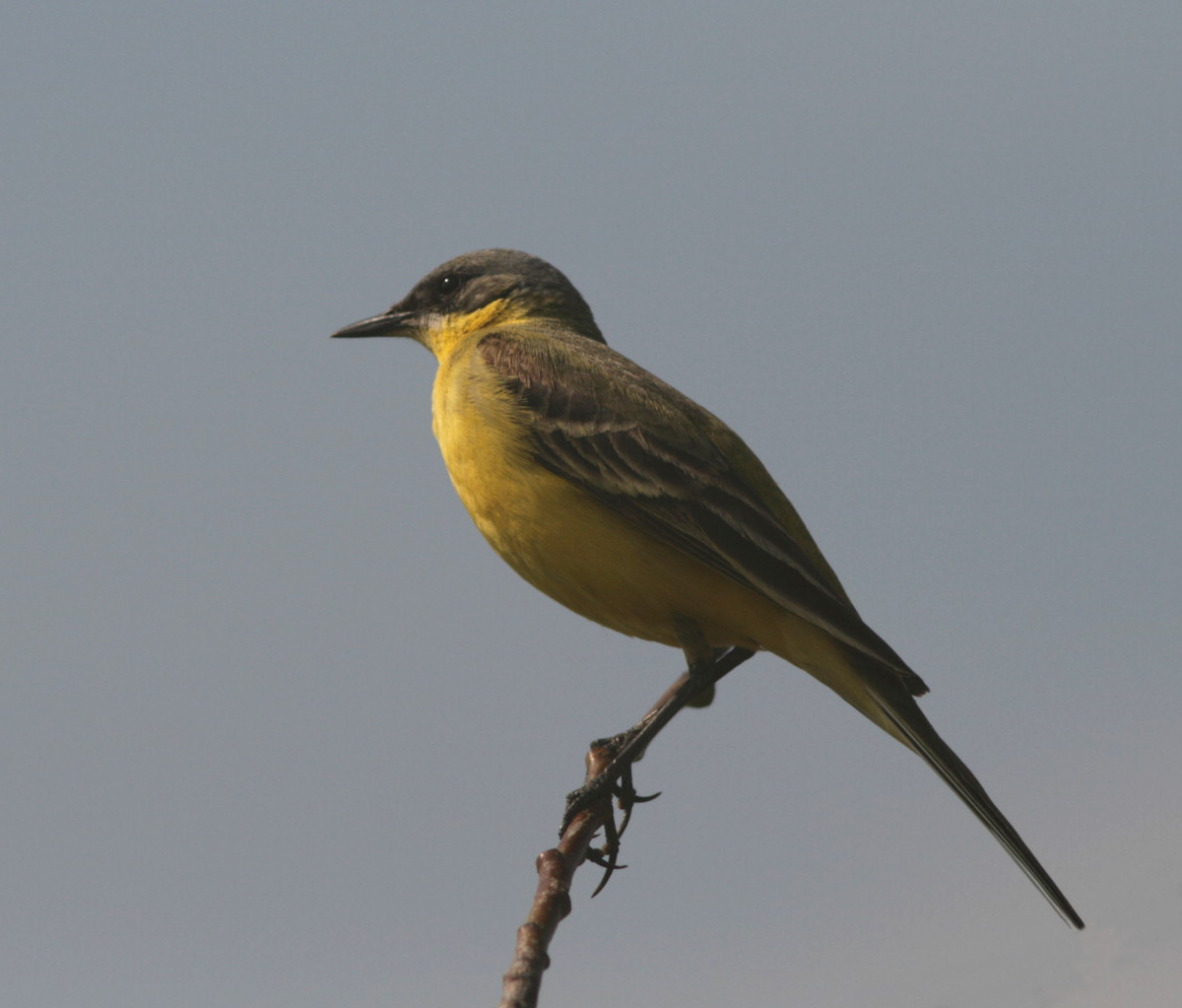 Western yellow wagtail